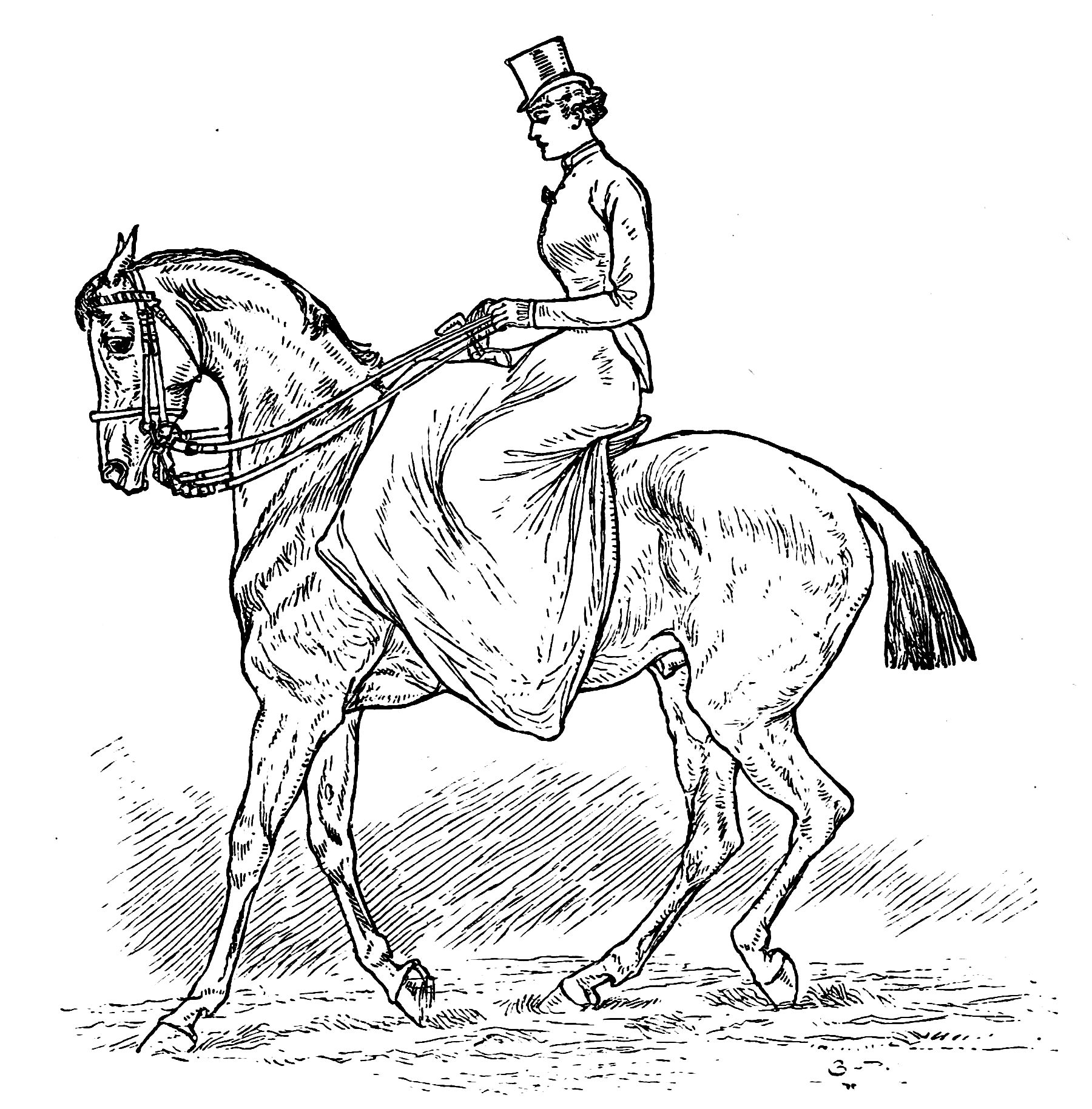 Image from book Horsemanship for Women by Theodore Hoe Mead